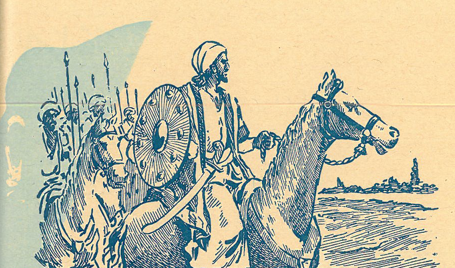 A drawing of General and prophet's companion Khālid ibn al-Walīd heading the Muslim Army during the battle of Yarmouk.